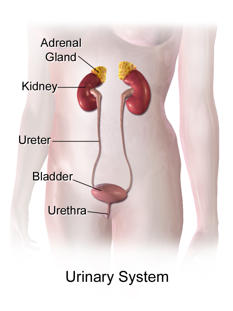 A medical illustration depicting a female's urinary system.